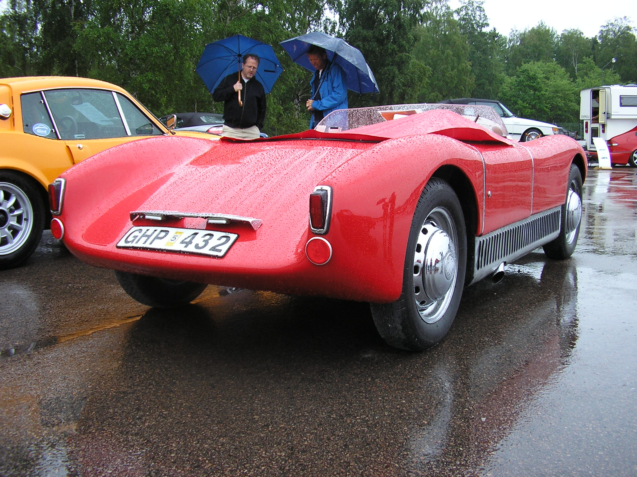 The only privatley owned mk1 SAAB Sonett in Sweden. Photographed at the International SAAB Club Meeting 2006.